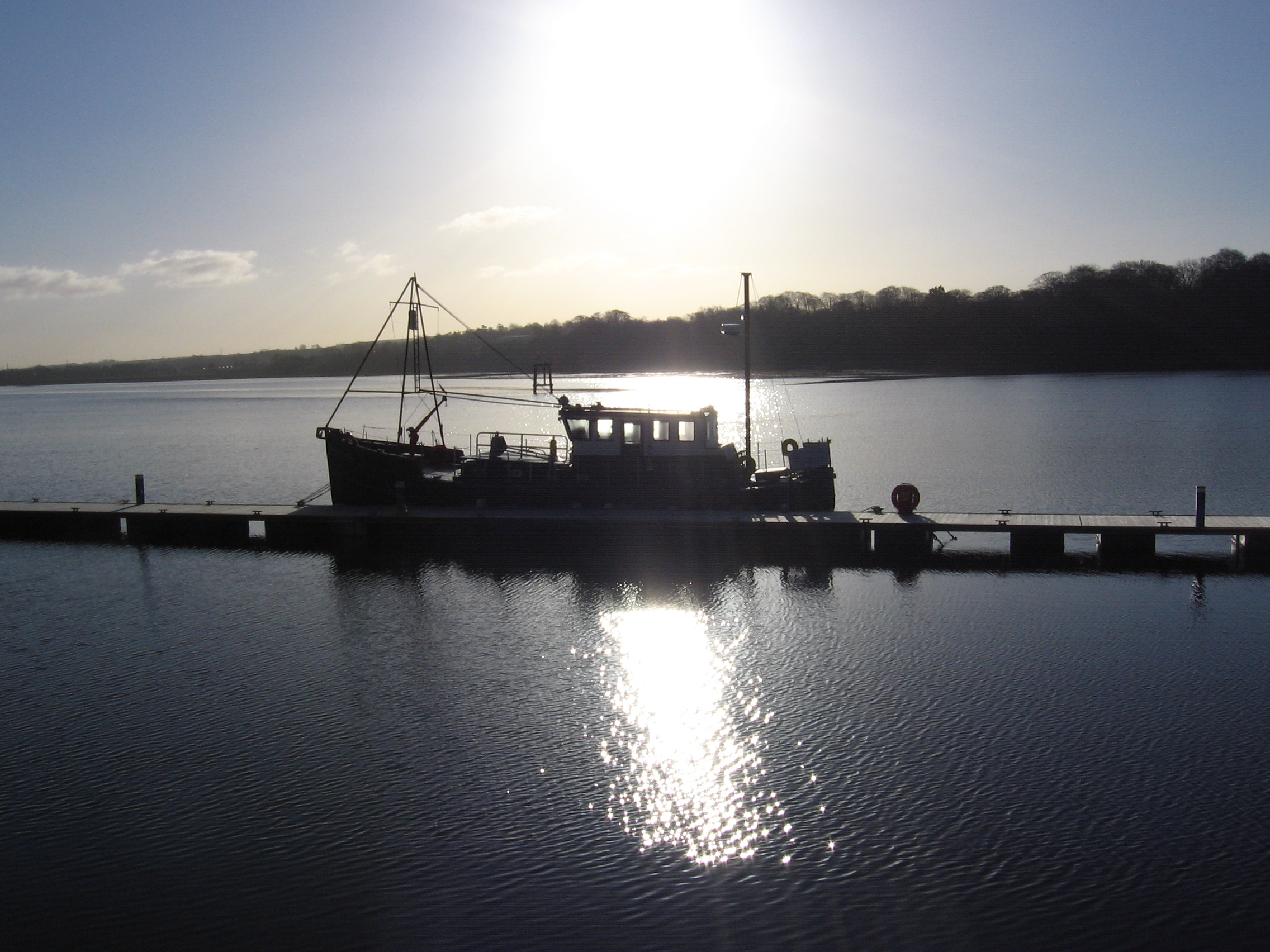 Morning on the River Foyle, Derry City centre.